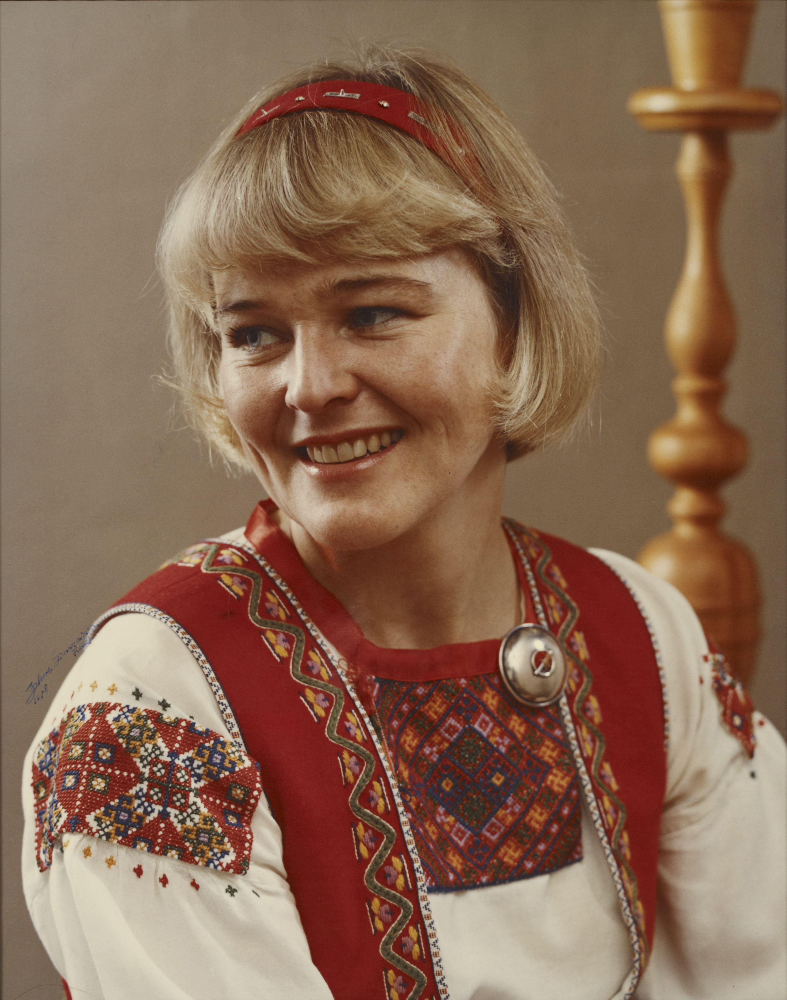 Photograph of the Finnish vocalist Raita Karpo (1941–).